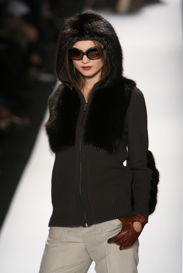 Behati Prinsloo February 2008 at Carolina Herrera